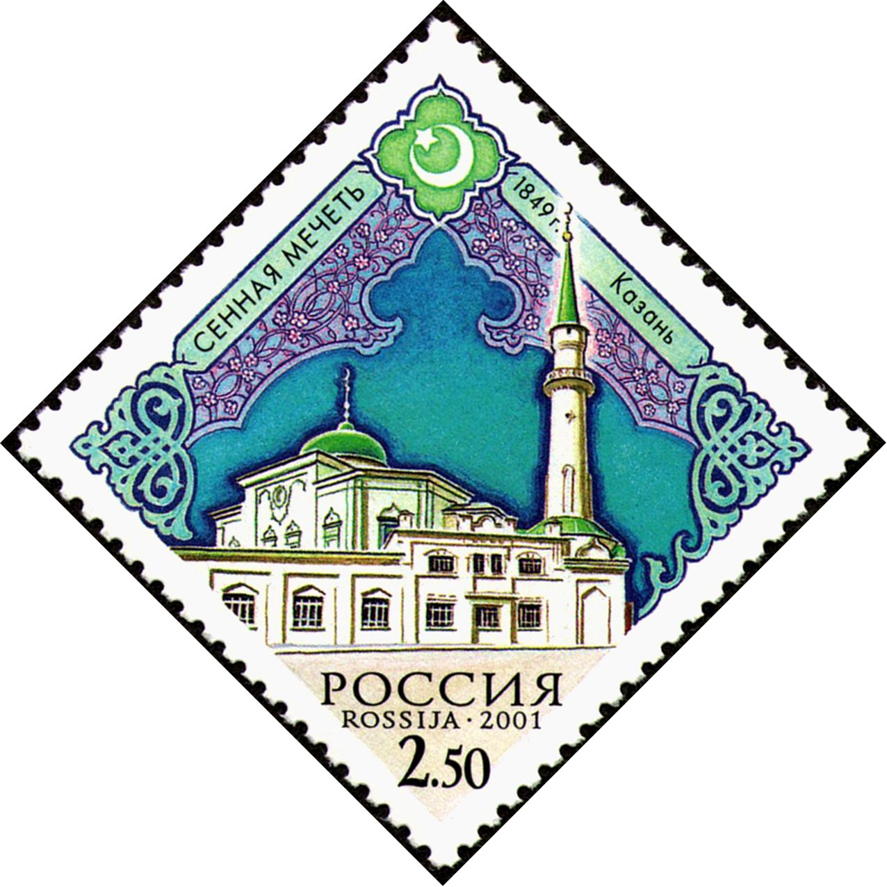 Religious buildings of Russia.Islam.The Nurulla Mosque in Kazan[1]. Architect Alexander Loman. 1845–1849.The stamp of Russia, 2.50 rubles, 12 July 2001, PTC Marka Catalogue No 695, Michel No 927, Scott No 6650. Coated paper. Offset printing. Multicoloured. Perforation: comb 11½. Size of the stamp: 37×37 mm. Print run: 350,000.